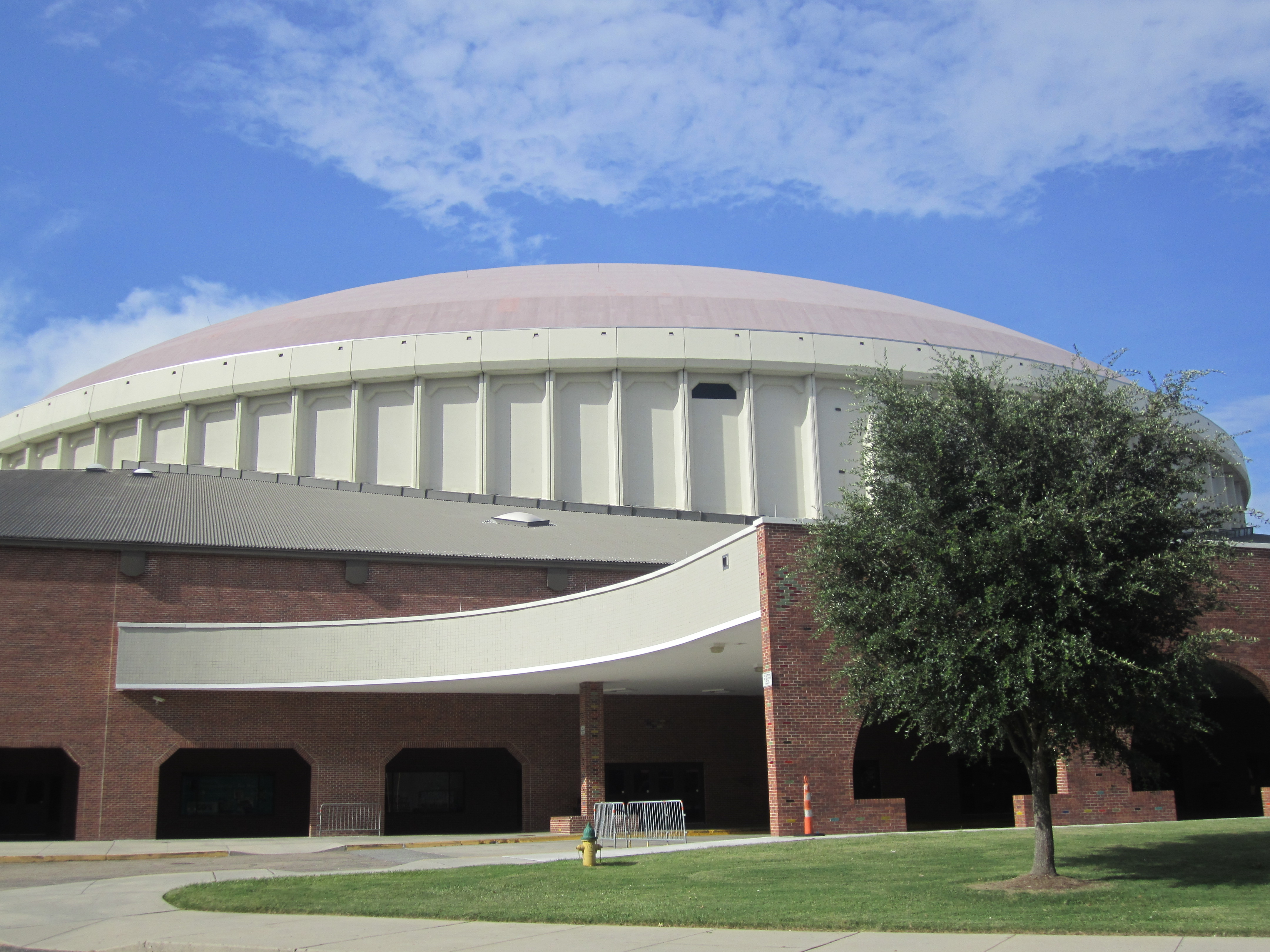 I took this photo of the Cajundome in Lafayette, LA, with Canon camera.